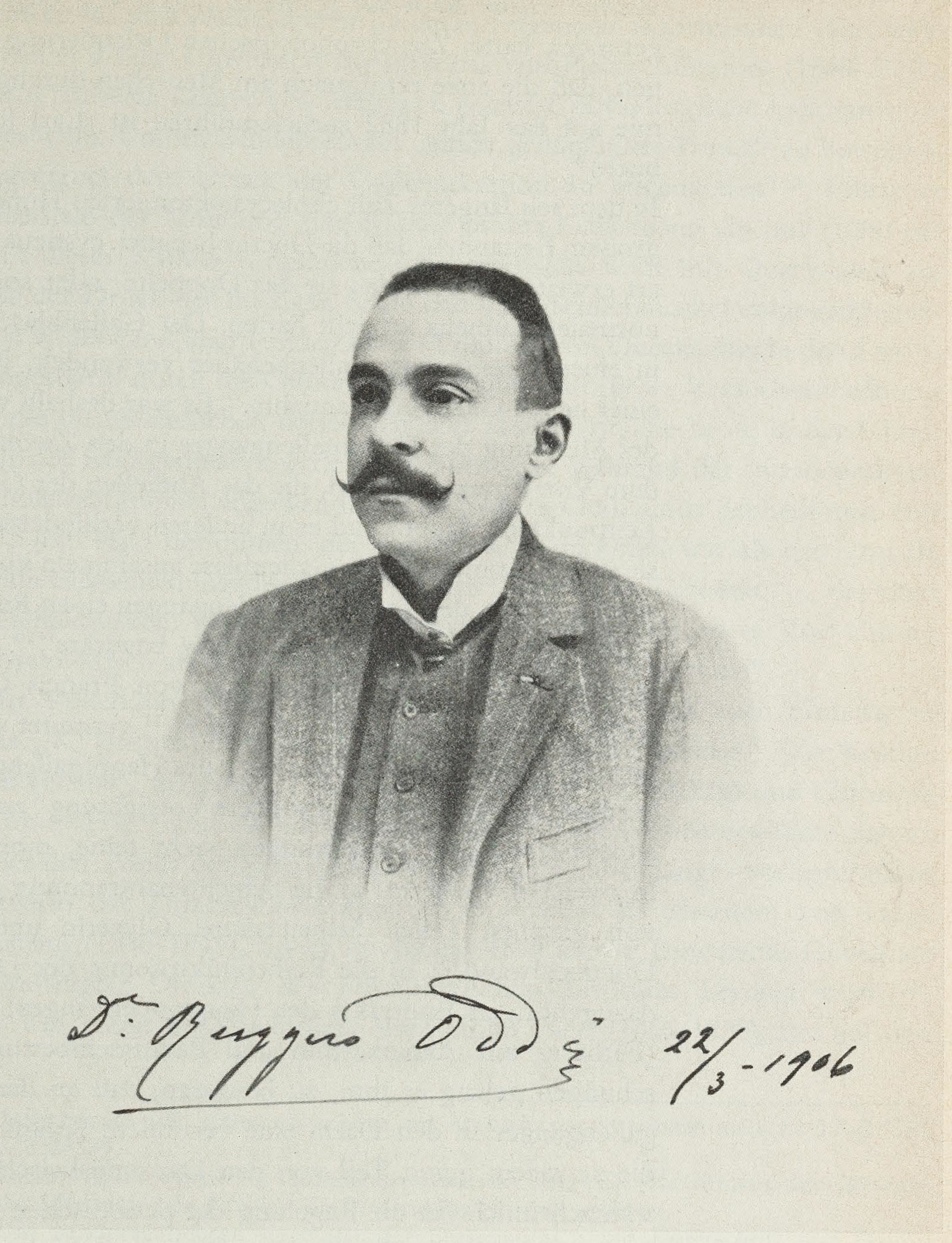 Rugero Oddi (1864-1916)